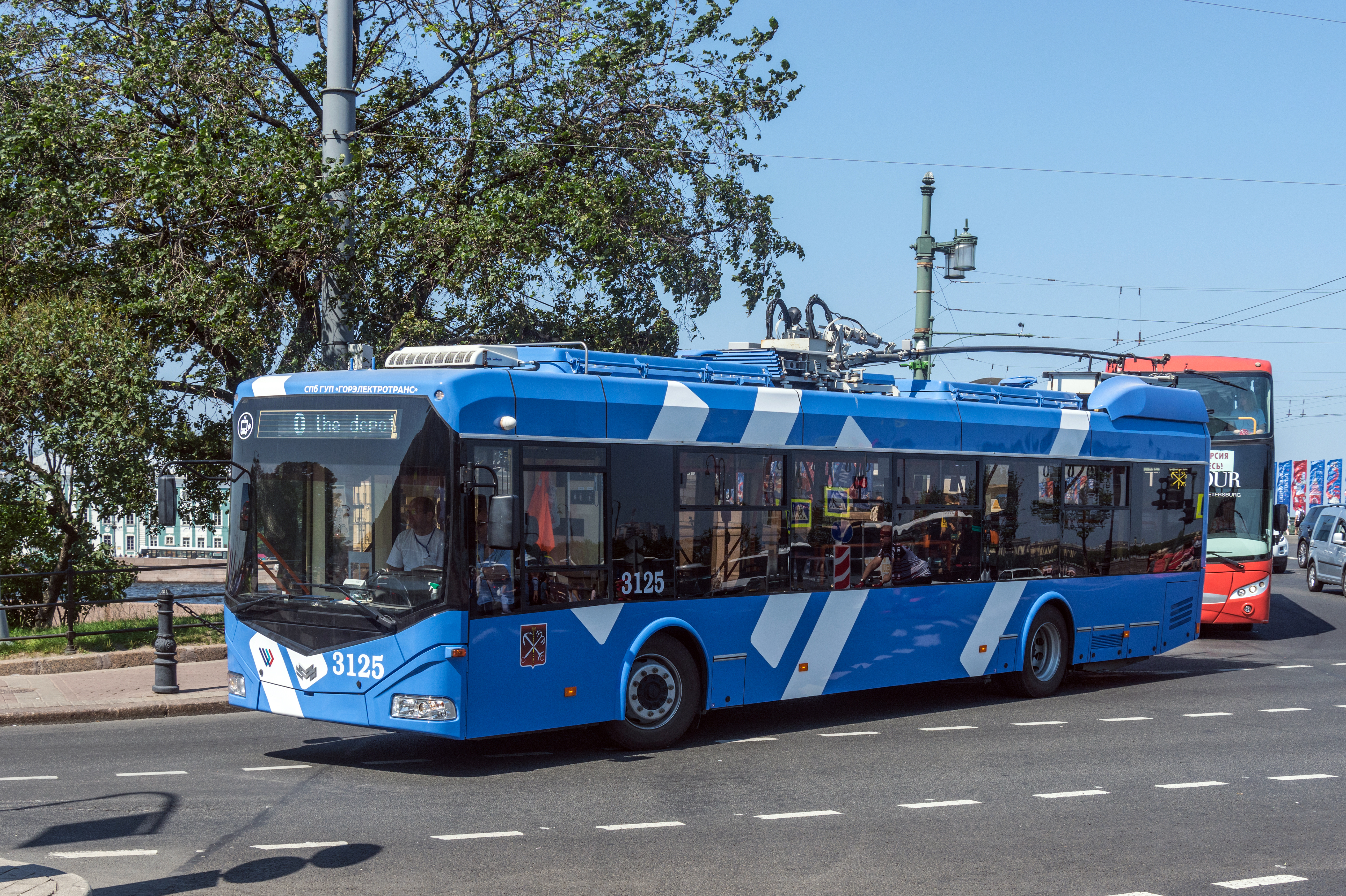 Trolleybus AKSM-321 at Palace Bridge in Saint Petersburg